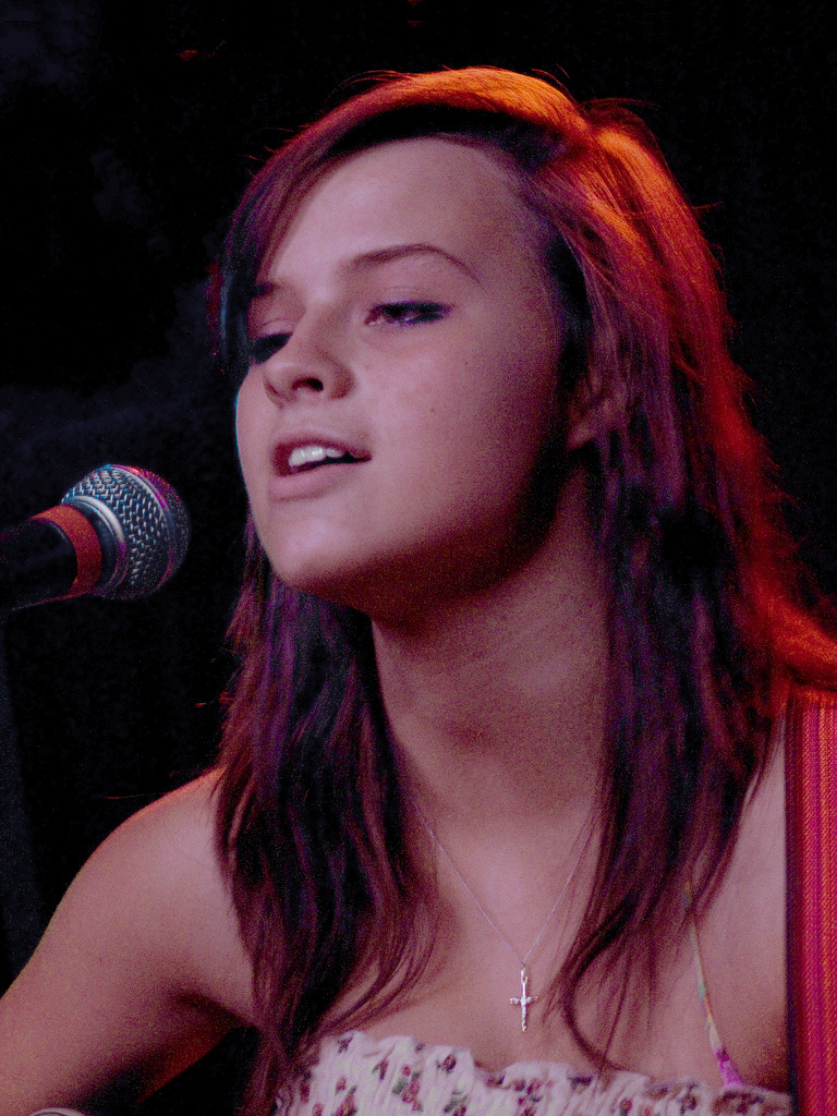 British singer-songwriter Gabrielle Aplin performing on 25 June 2010